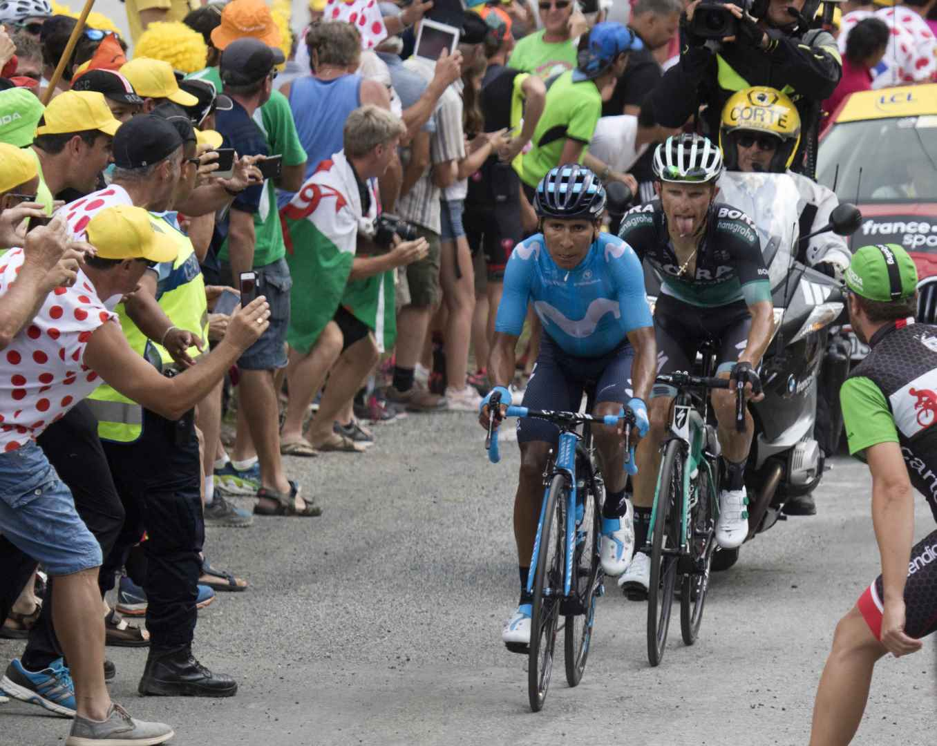 2018 Tour de France